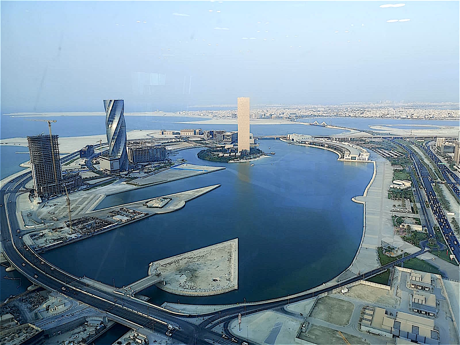 An overview photograph of the Bahrain Bay project, a commercial real estate development on the northern coastline of Manama, in Bahrain. Viewable in the picture is the Four Seasons Hotel, the Avenues, Arcapita's HQ, the Grand Wyndham Hotel, and the King Faisal Highway leading towards Muharraq (background).